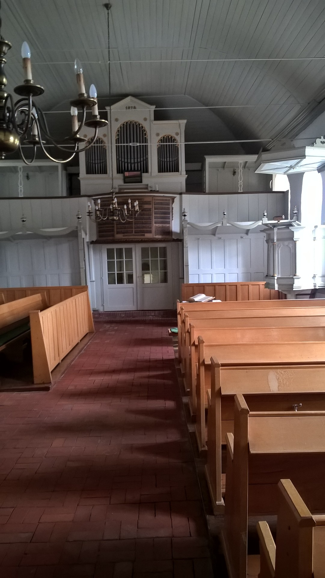 Reformed church in Oldendorp, district of Leer, East Frisia, Germany